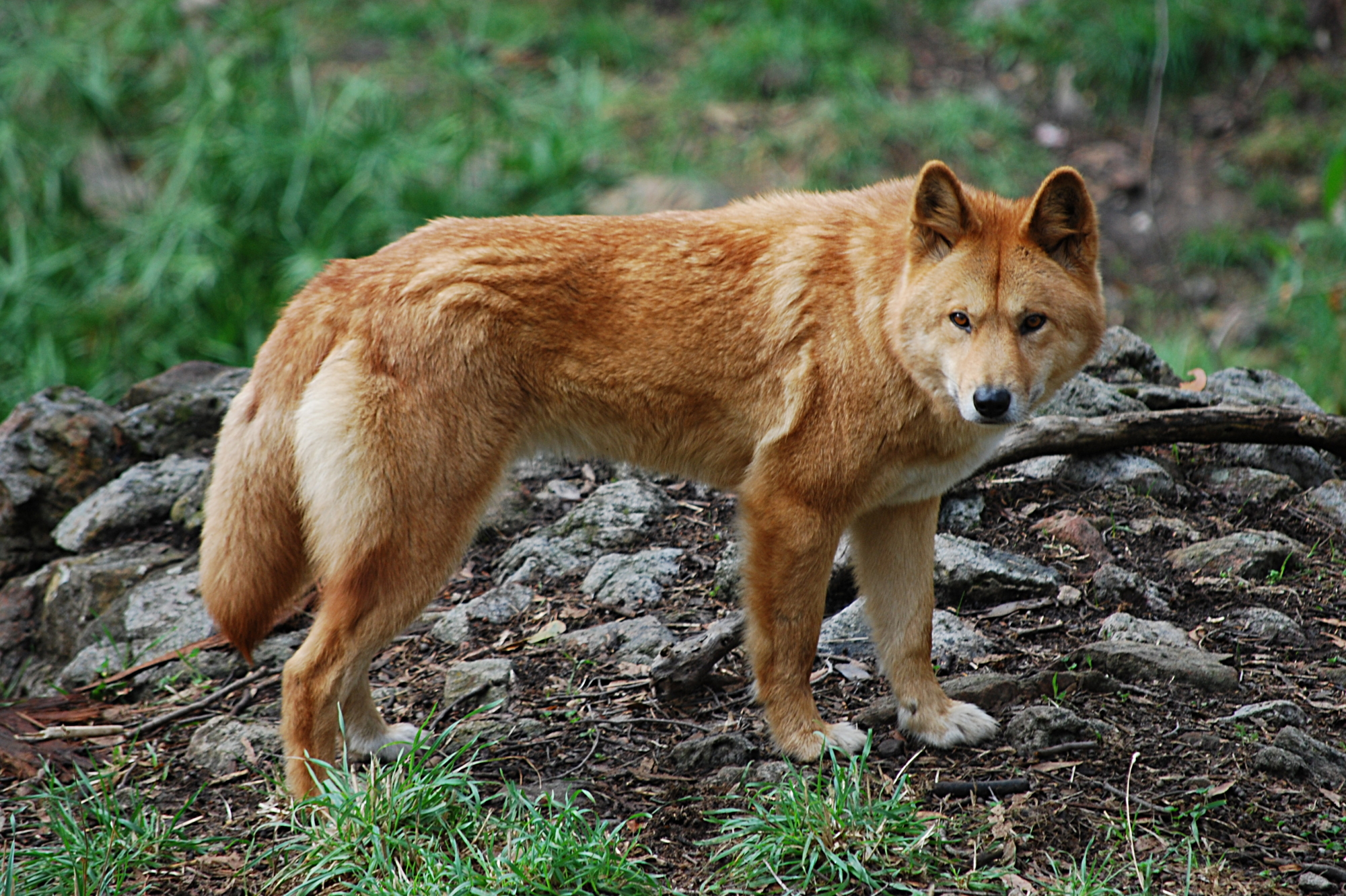 Dingo (Canis lupus dingo) at Cleland wildlife park, South Australia